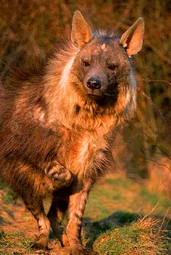 A Brown Hyena (Hyaena brunnea Syn. Parahyaena brunnea), courtesy of (take part in brown hyena research with Biosphere Expeditions).